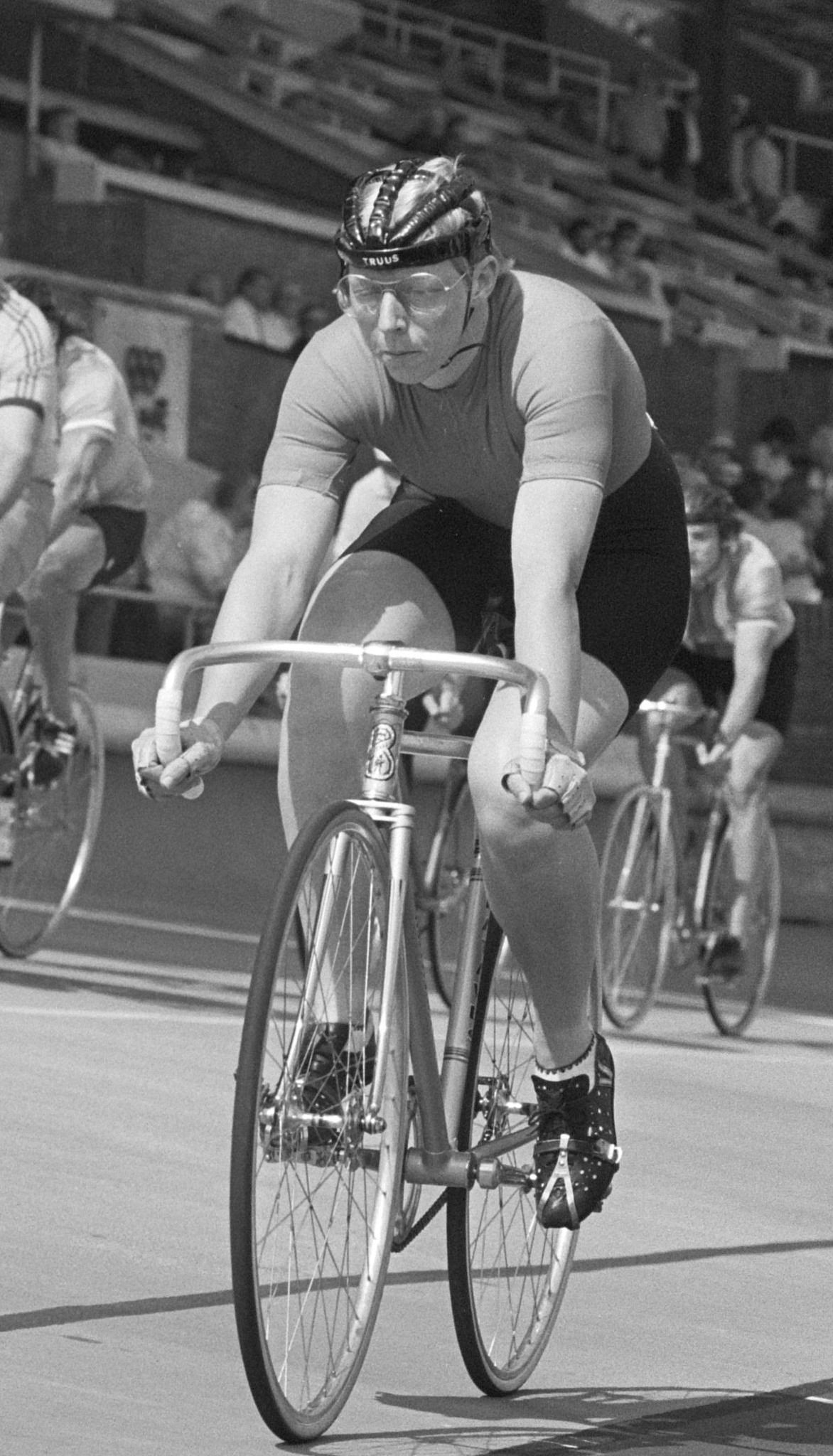 Wereldkampioenschappen Wielrennen 1979 in het Olympisch Stadion in Amsterdam. Truus van der Plaat